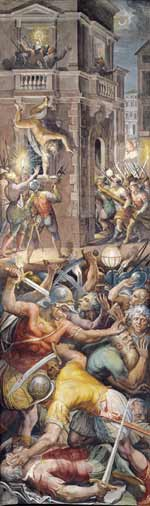 St. Bartholomew's Day massacre; the murder of Gaspard de Coligny presented in the upper left corner (body falling out of the window)